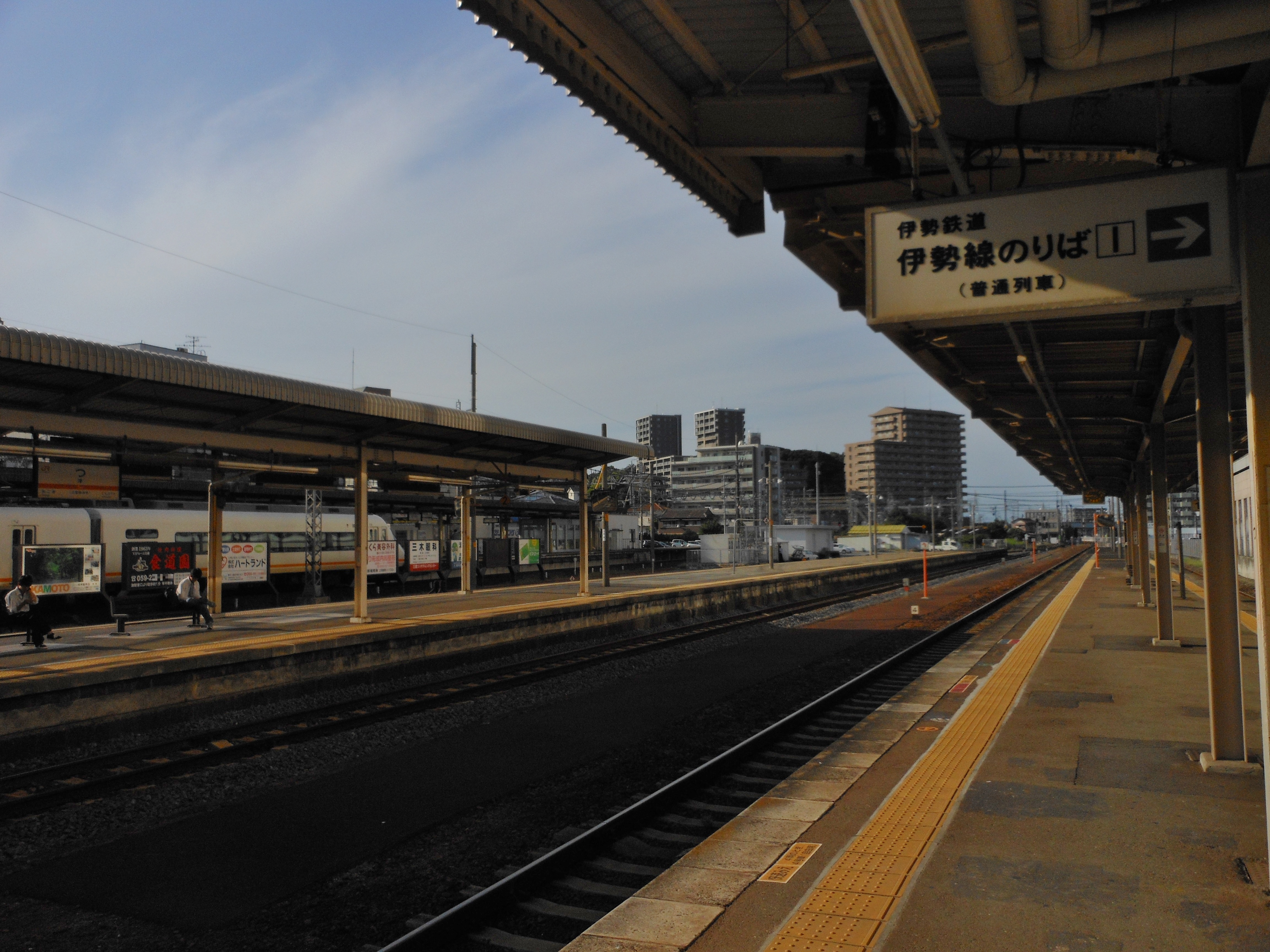 These are platforms of Tsu station, Tsu, Mie, Japan.